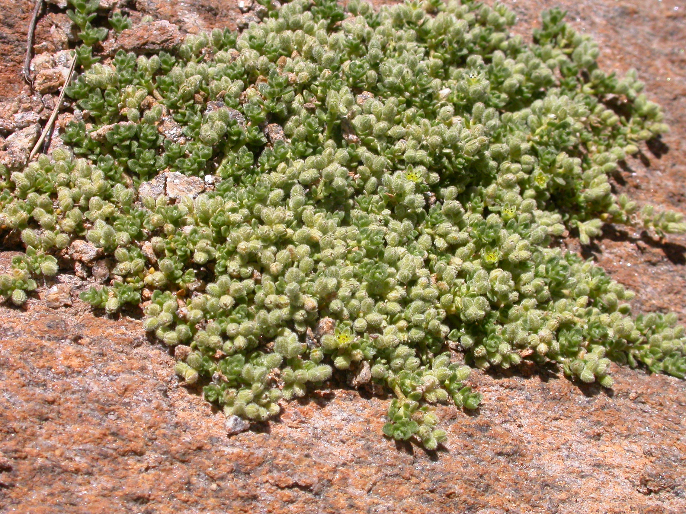 Herniaria alpina Zermatt, Riffelberg (Kanton Wallis, Switzerland), 2500 m Author: Barbara Studer – own photograph Date: 2.08.06